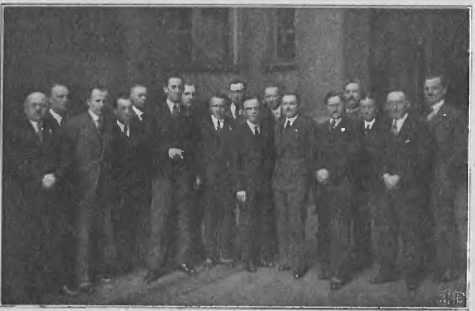 Polish Military Organisation 1933 conference in Łódź